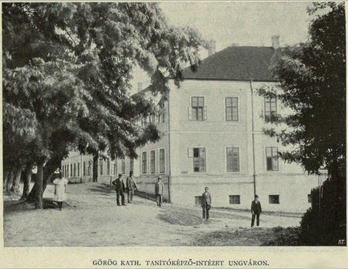 Teacher's college - Ungvár